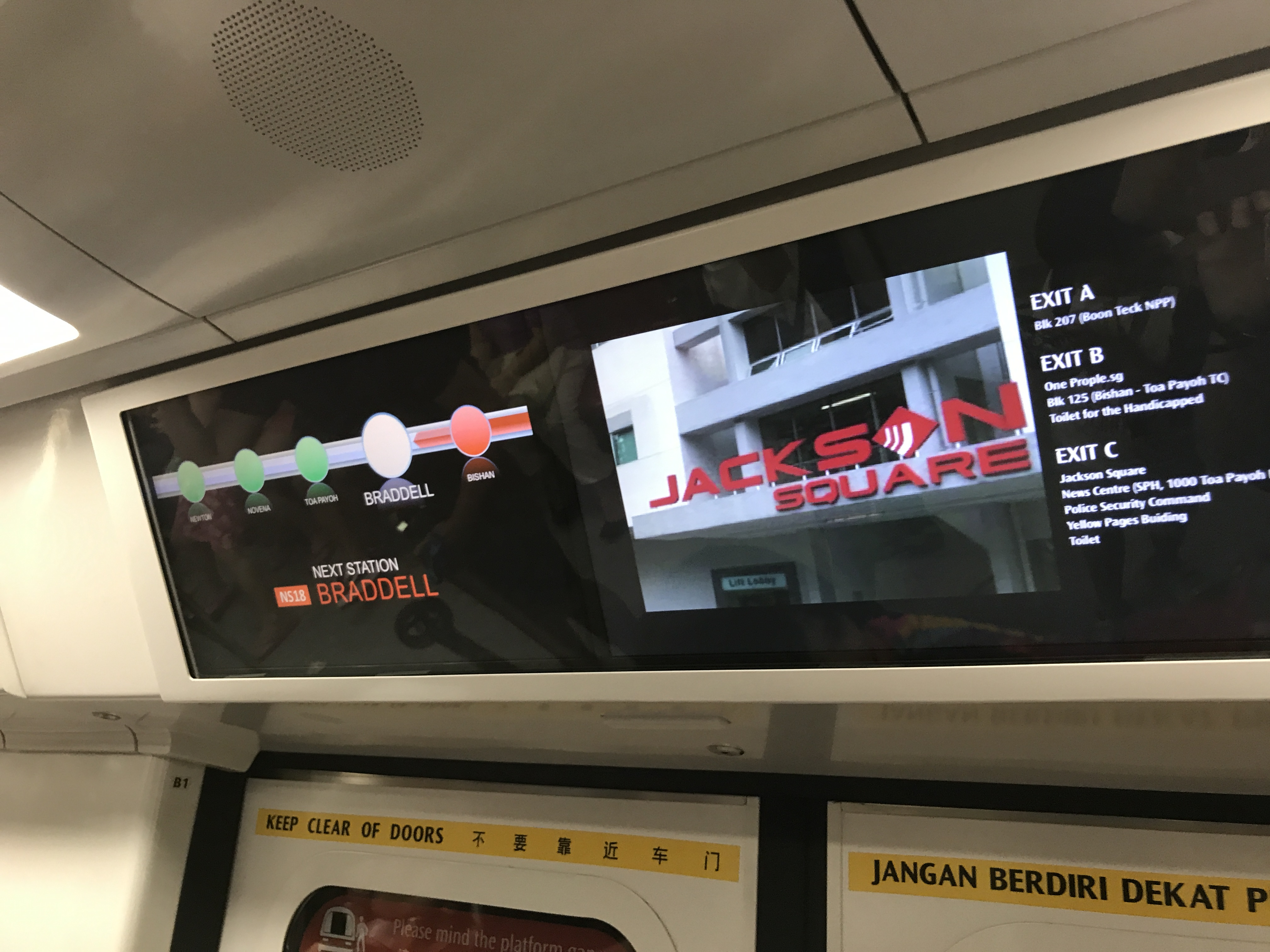 STARiS 2.0 Braddell